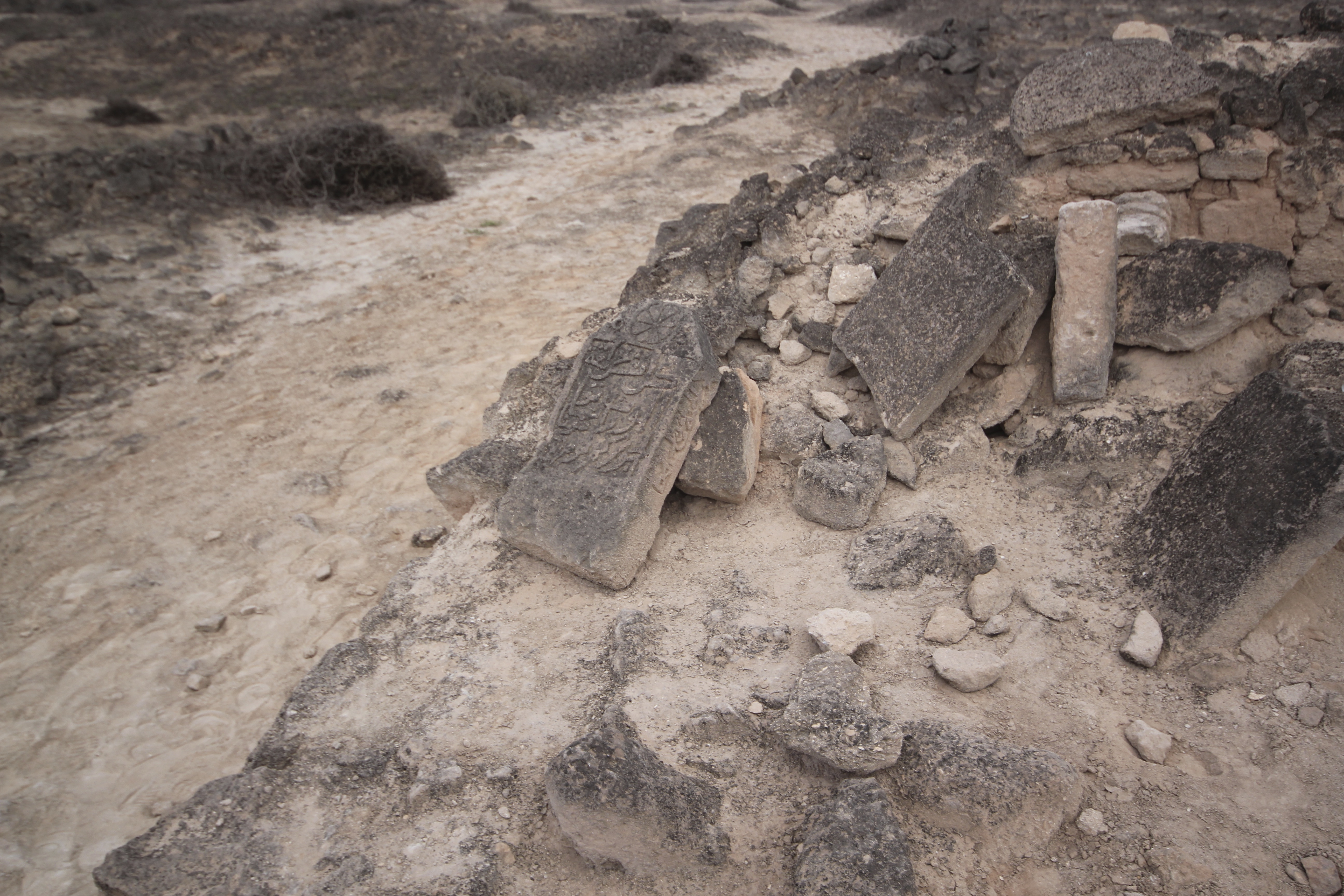 Salalah, Dhofar.